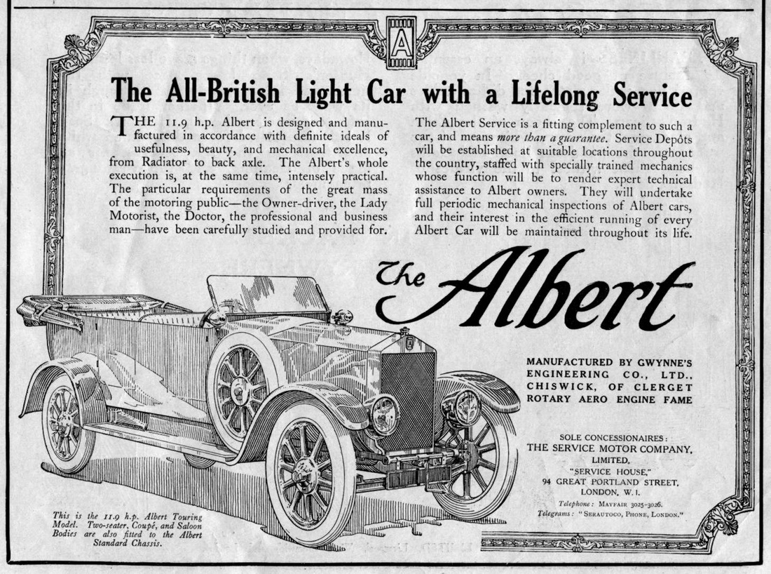 Albert advert, complete description, in a copy of Pears' Annual Christmas 1920 2/